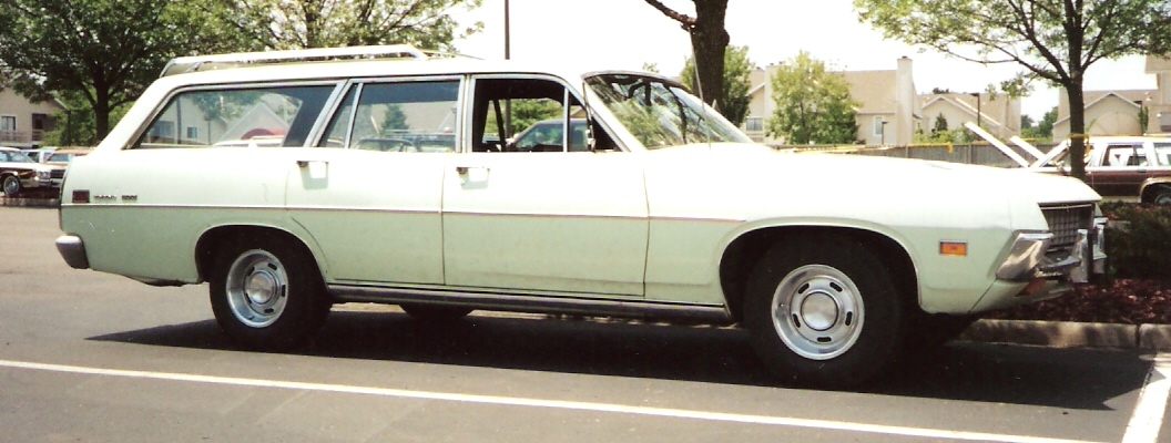 1971 Ford Torino 500 station wagon I photographed in Dearborn, Michigan in June 2001.